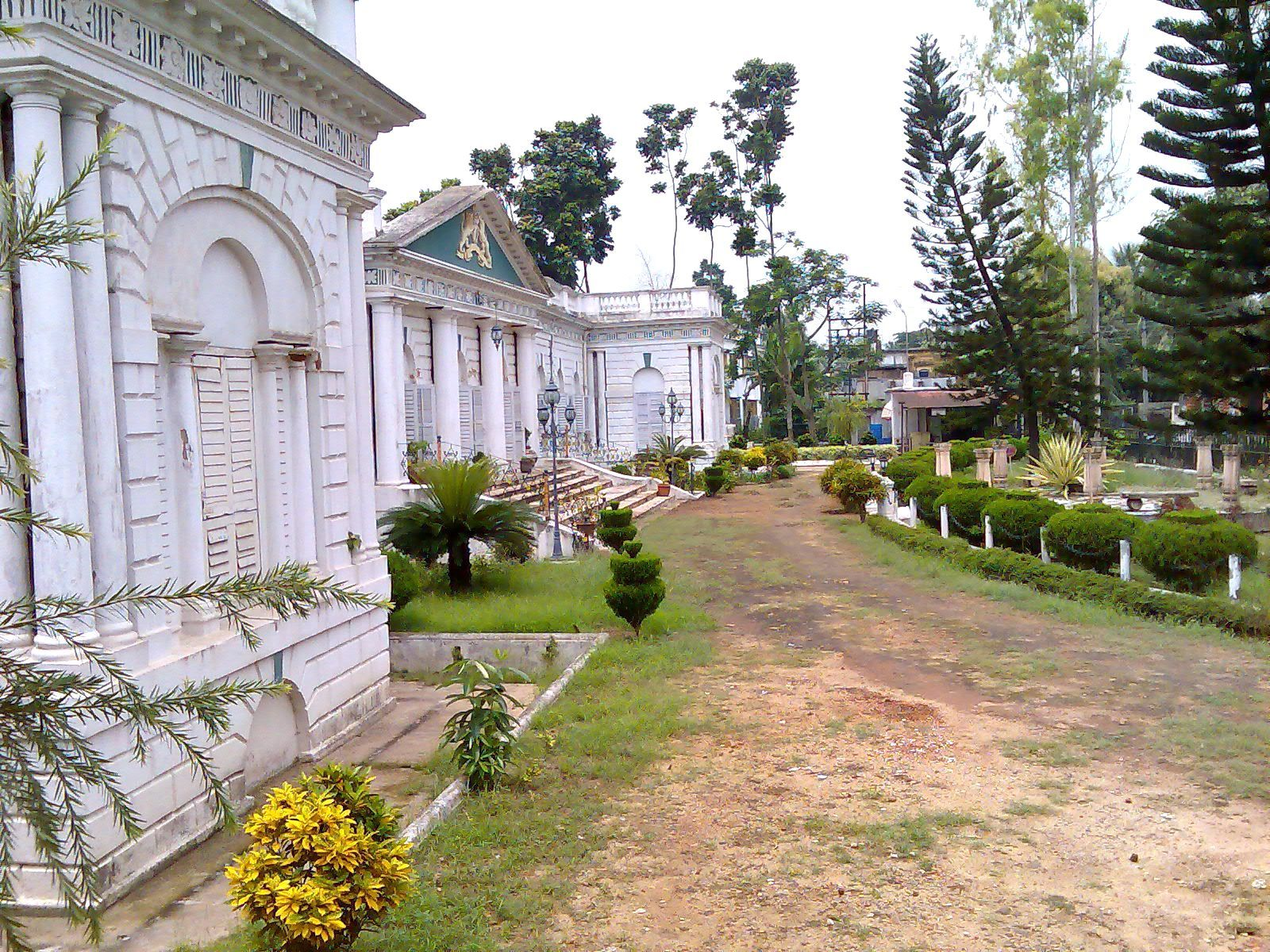 new cossimbazar palace of chatterjee kings of berhampore.